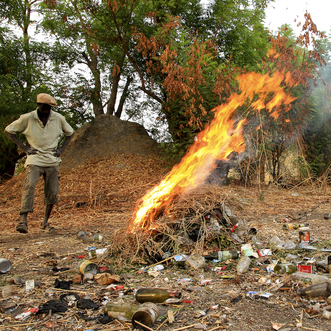 Chargé de l'incinération des déchets ménagers, Toubacouta, Sine Saloum, Sénégal This is an image of "African people at work" from Senegal